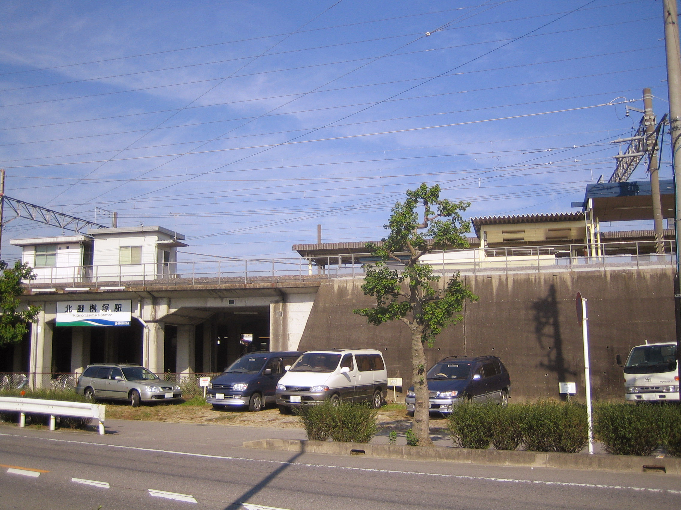 Kitanomasuzuka Sta. (北野桝塚駅), at Okazaki, Aichi, Japan